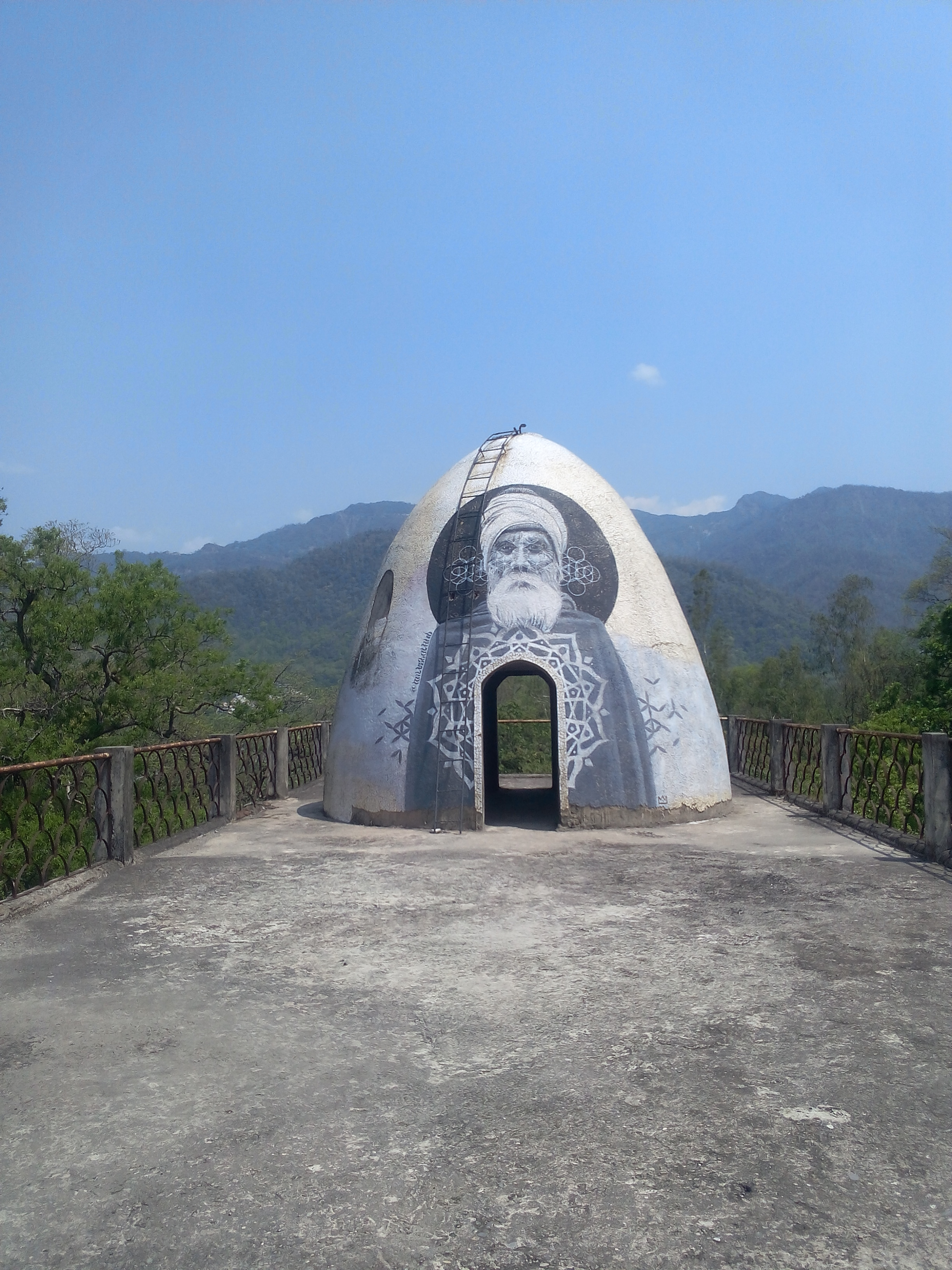 A meditation tomb inside the beatles ashram in rishikesh